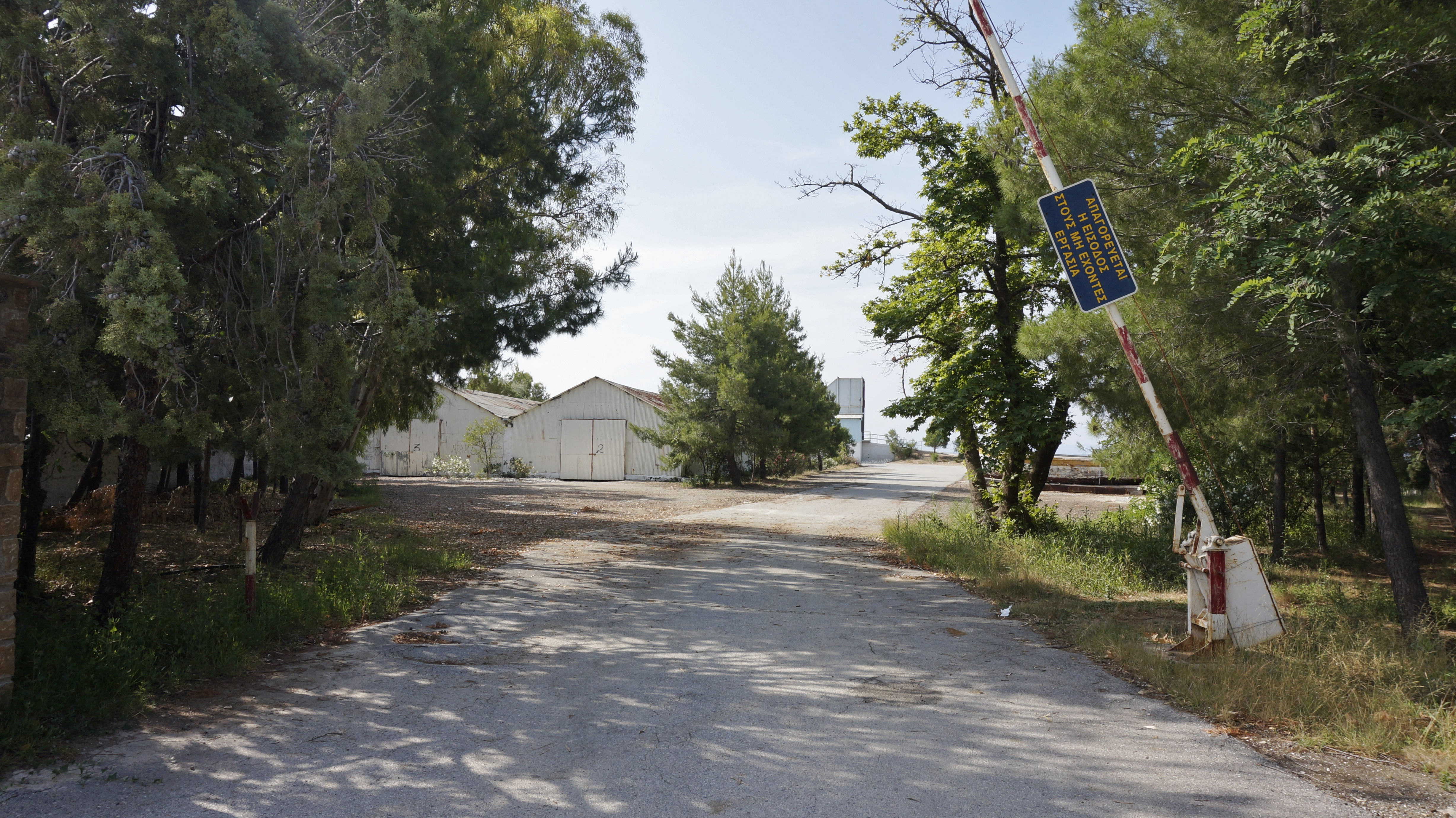 Yerakini Magnesite depots north side on the central beach, before the main dock, at Yerakini seaside, Chalkidiki, Central Macedonia, Greece, Jun 2014